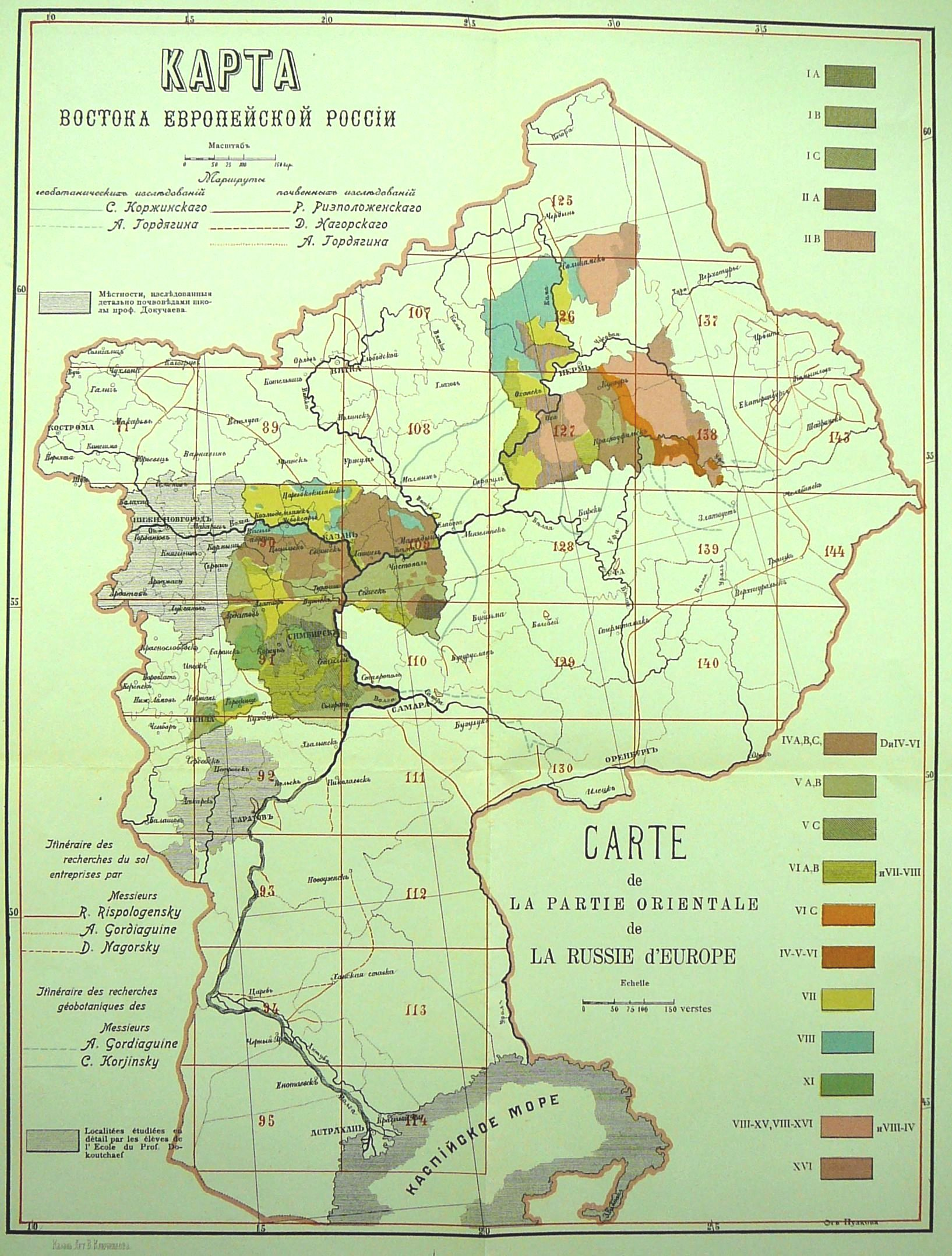 Карта Востока Европейской России, представленная Р.В.Ризположенским на Всемирную выставку 1900 г. в Париже